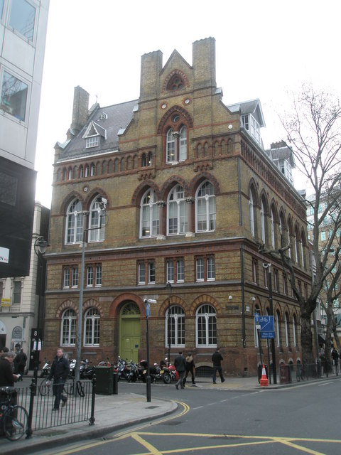 St Mungo's Hostel for the Homeless So very necessary in this city of extreme contrasts